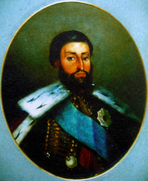 George XII of Georgia